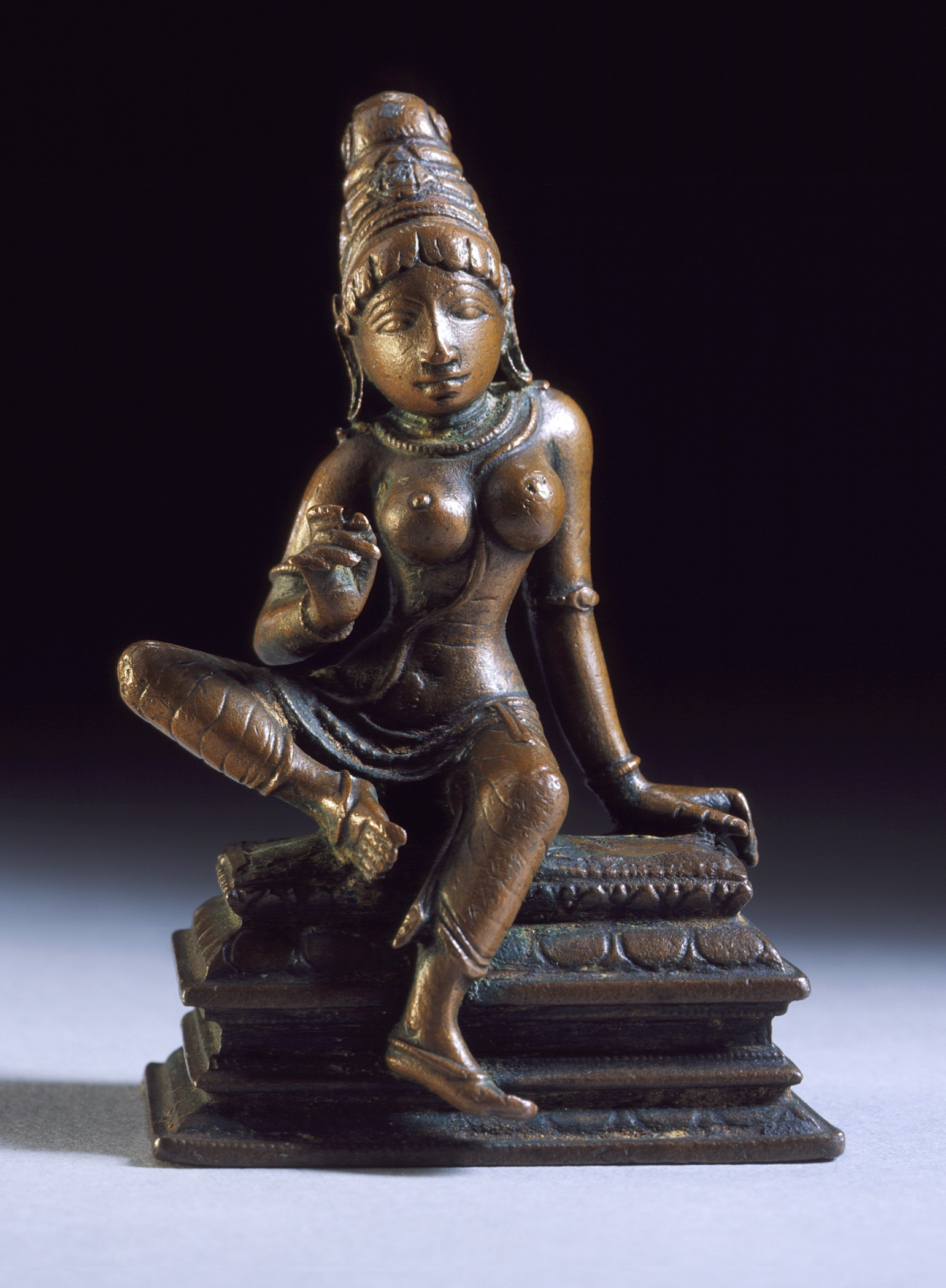 India, Tamil Nadu, 11th century Sculpture Copper alloy From the Nasli and Alice Heeramaneck Collection, Museum Associates Purchase (M.72.1.14) South and Southeast Asian Art